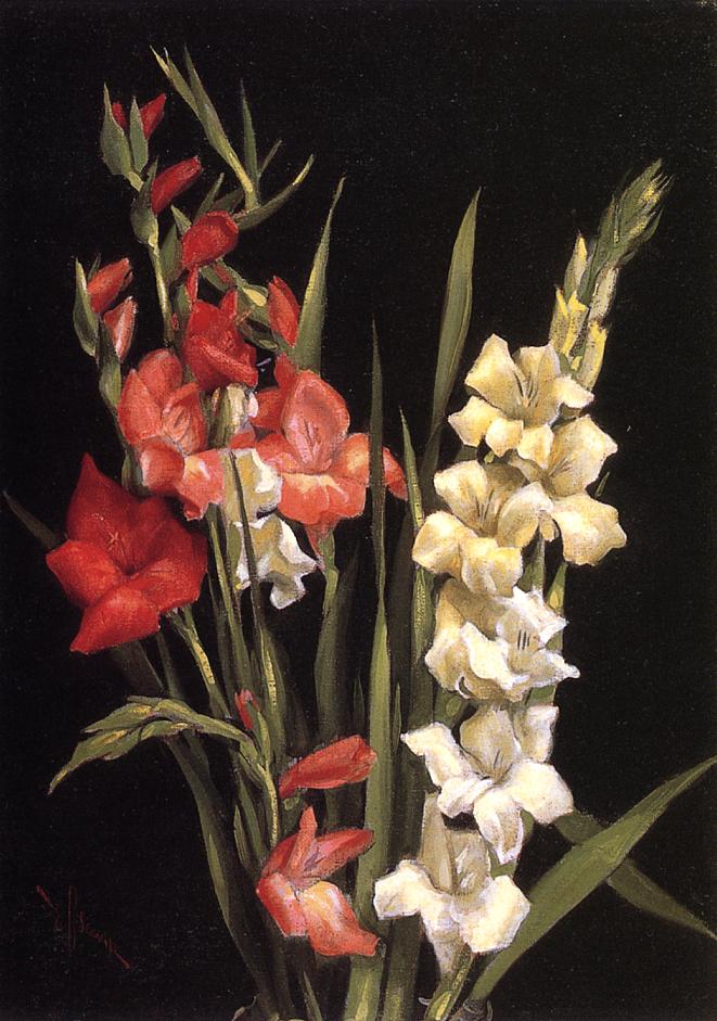 "Still Life with Gladiolas," by American artist Edward C. Leavitt, oil on canvas.